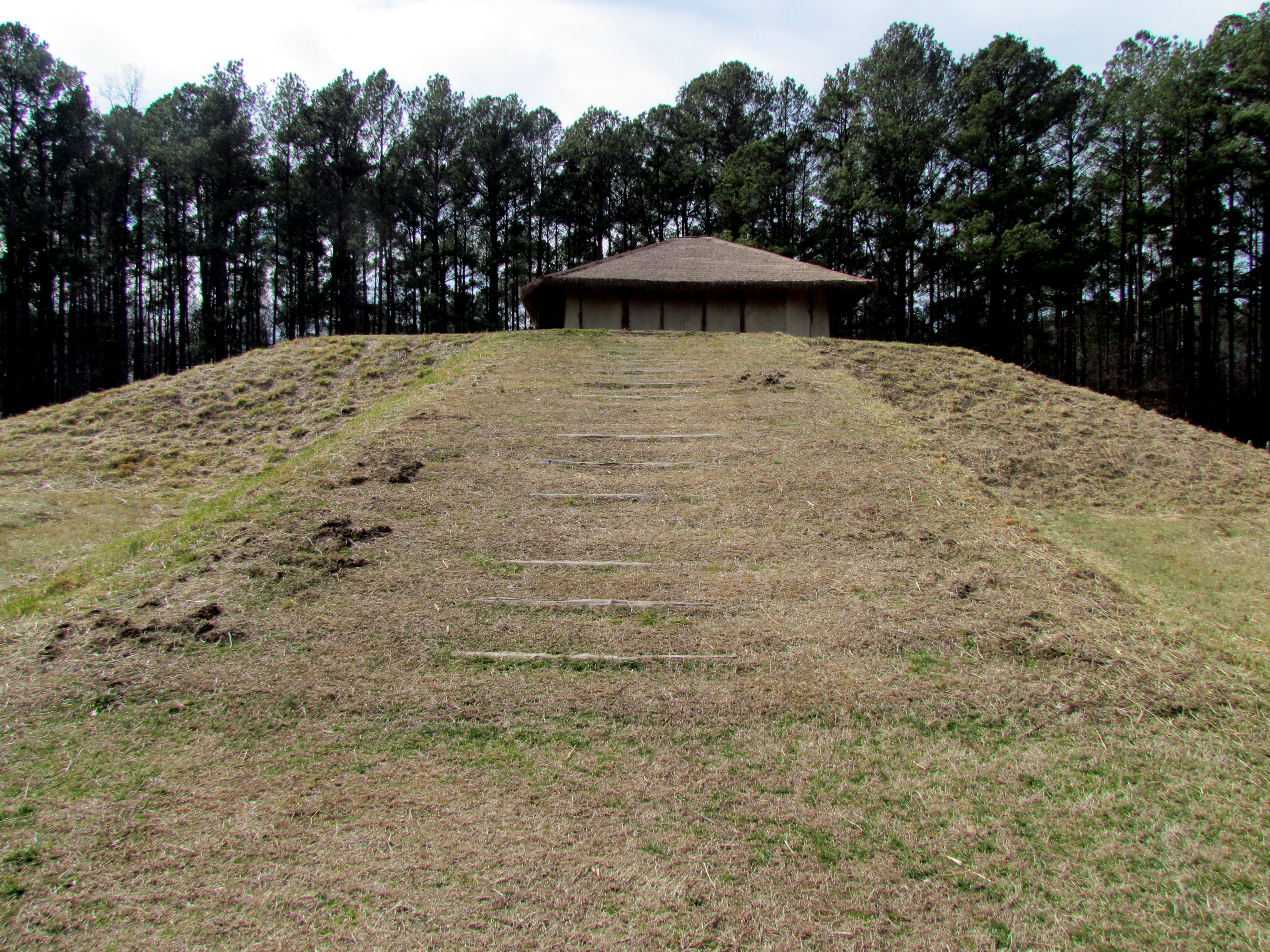 Town Creek Indian Mount Heritage Site NC 5323